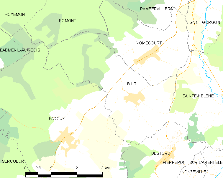 Map of French municipality Bult